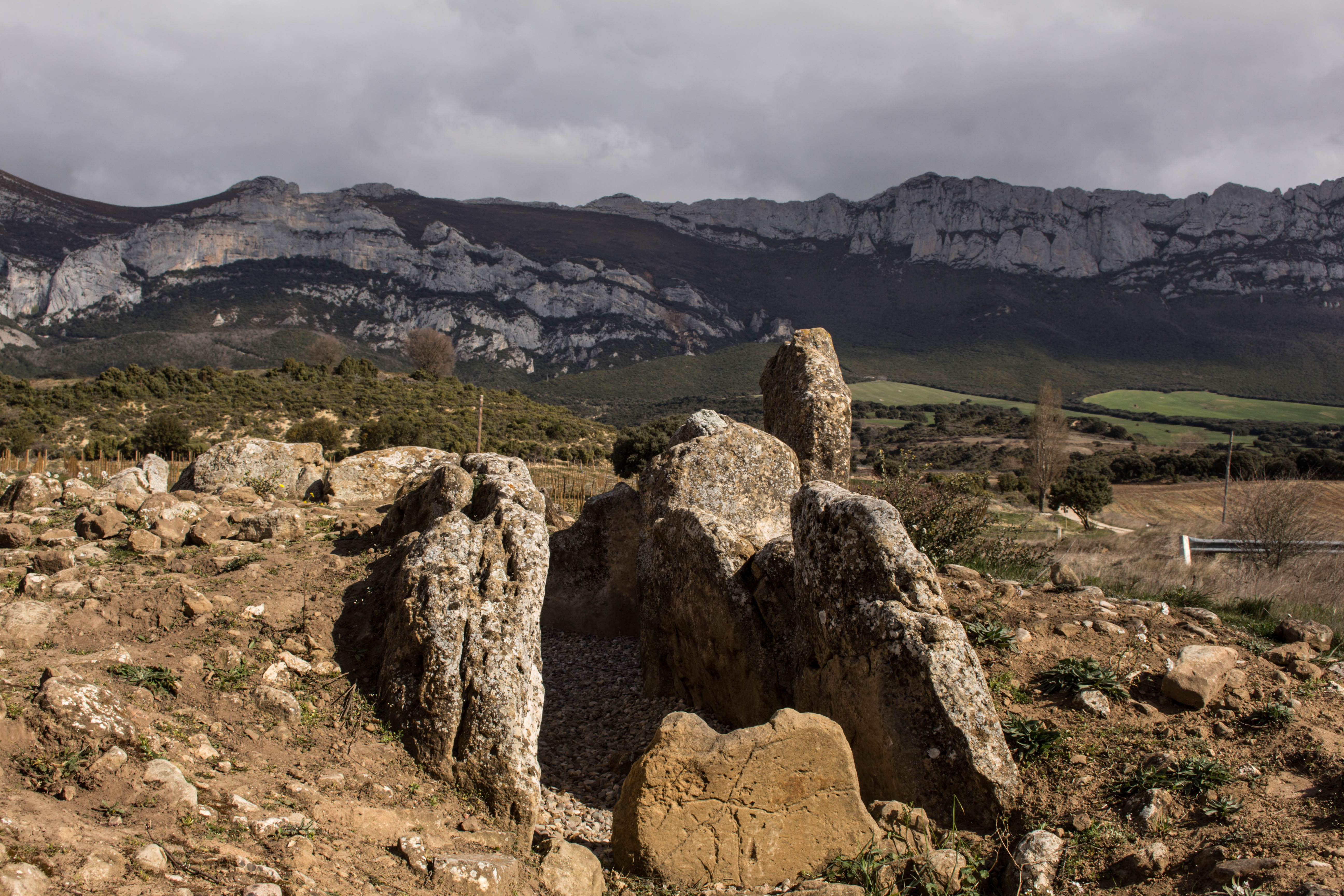 A dolmen shaped like a passage